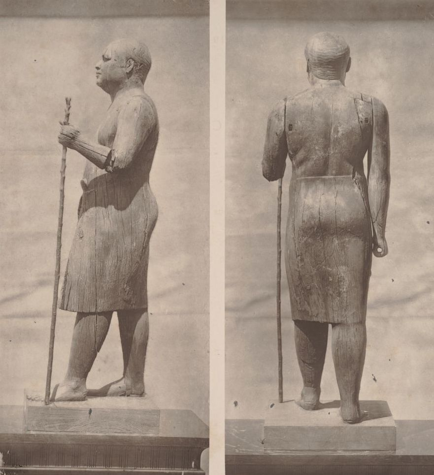 Side shot and back shot of a small wooden sculpture of man holding a stick with his left hand. . Black-and-white photograph.